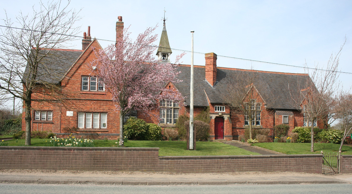 Sound and District Primary School, on the boundary between Sound & Broomhall, Cheshire